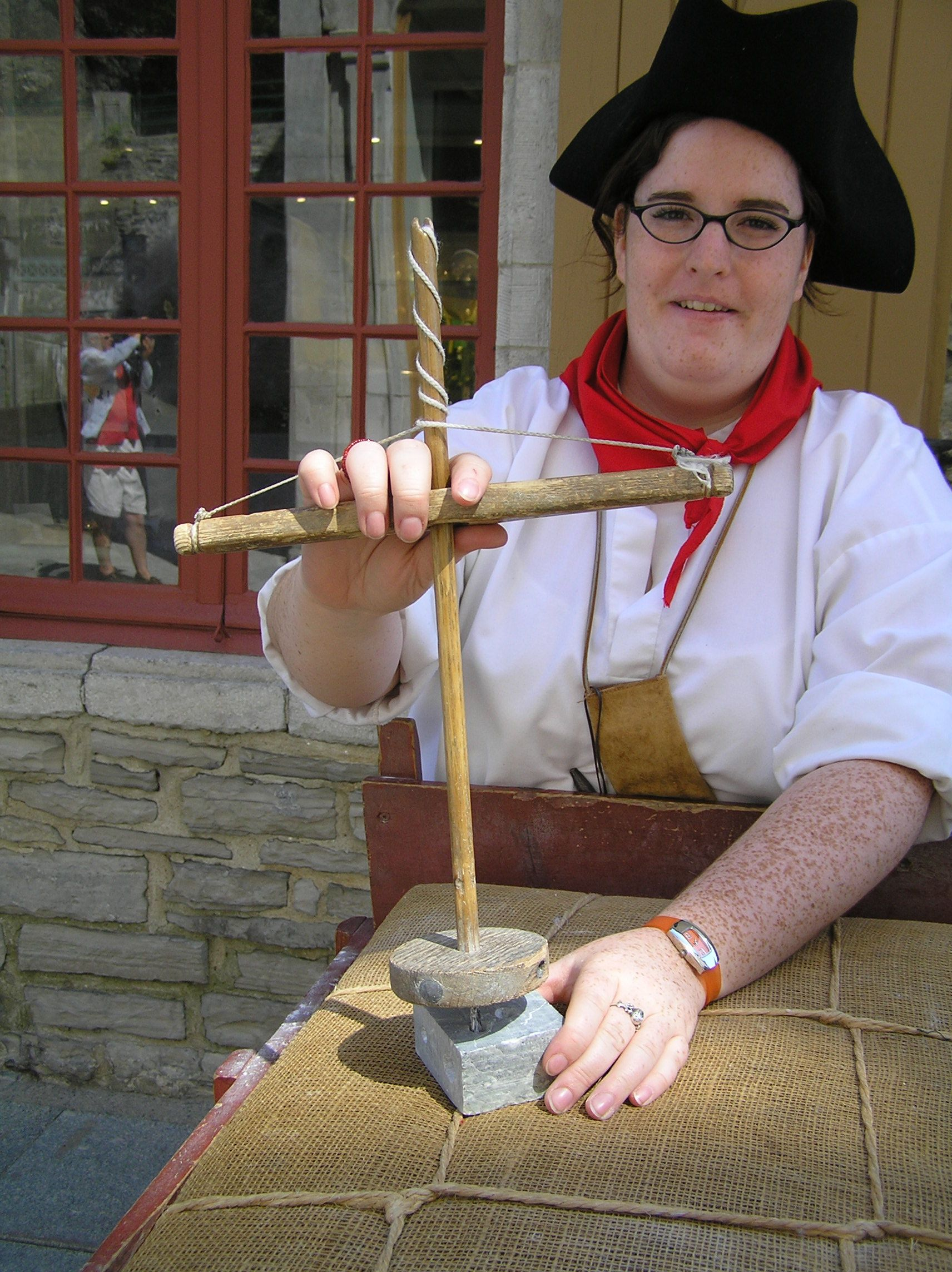 Woman demonstrating a pump drill. Photo taken in Quebec City, Quebec, Canada